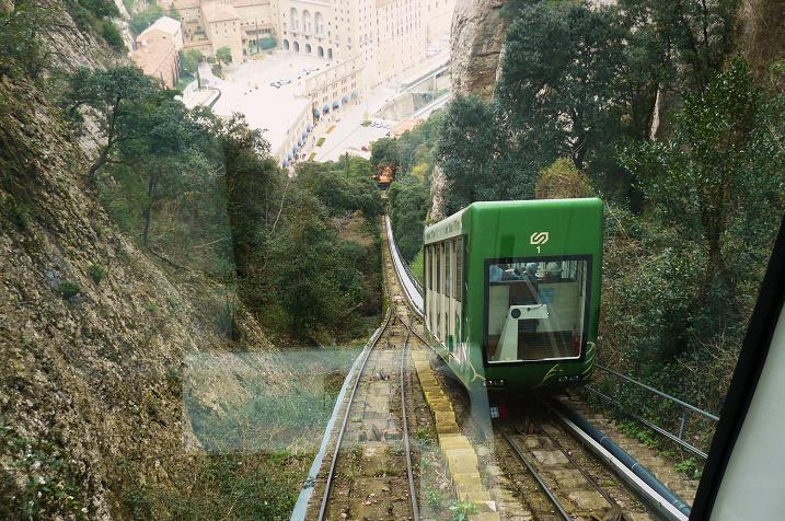 Montserrat - Funicular de San Joan.